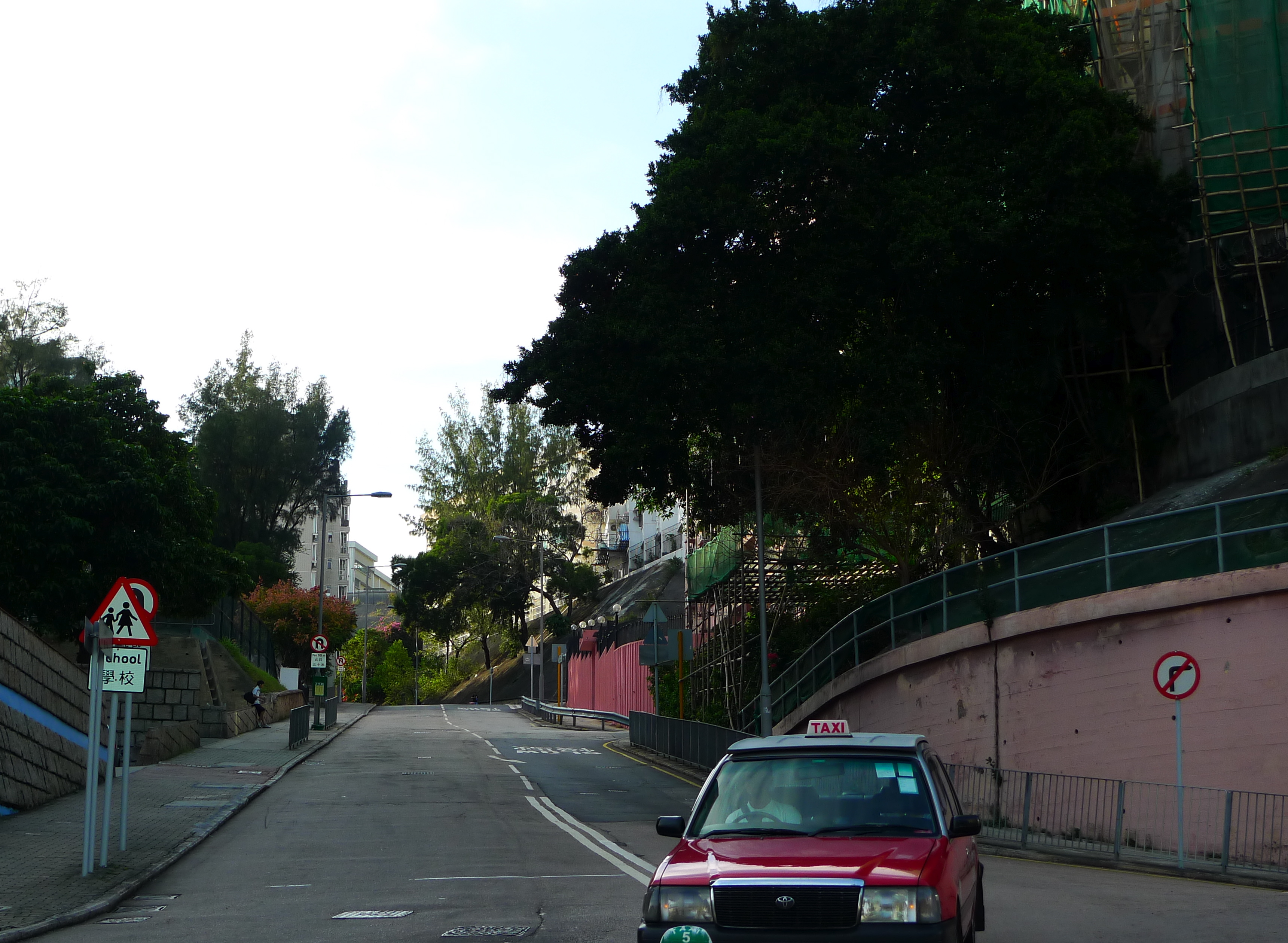 Ede Road, Kowloon Tong, Hong Kong 中文（香港）: 香港九龍塘義德道